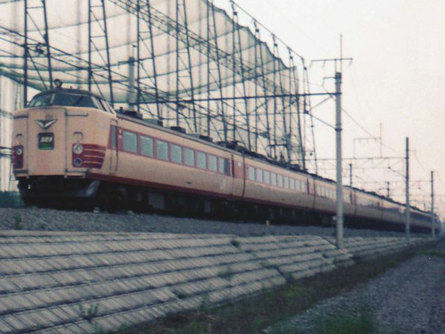 JR East 489 series EMU on an Asama limited express service between Shimmachi and Jimbohara stations